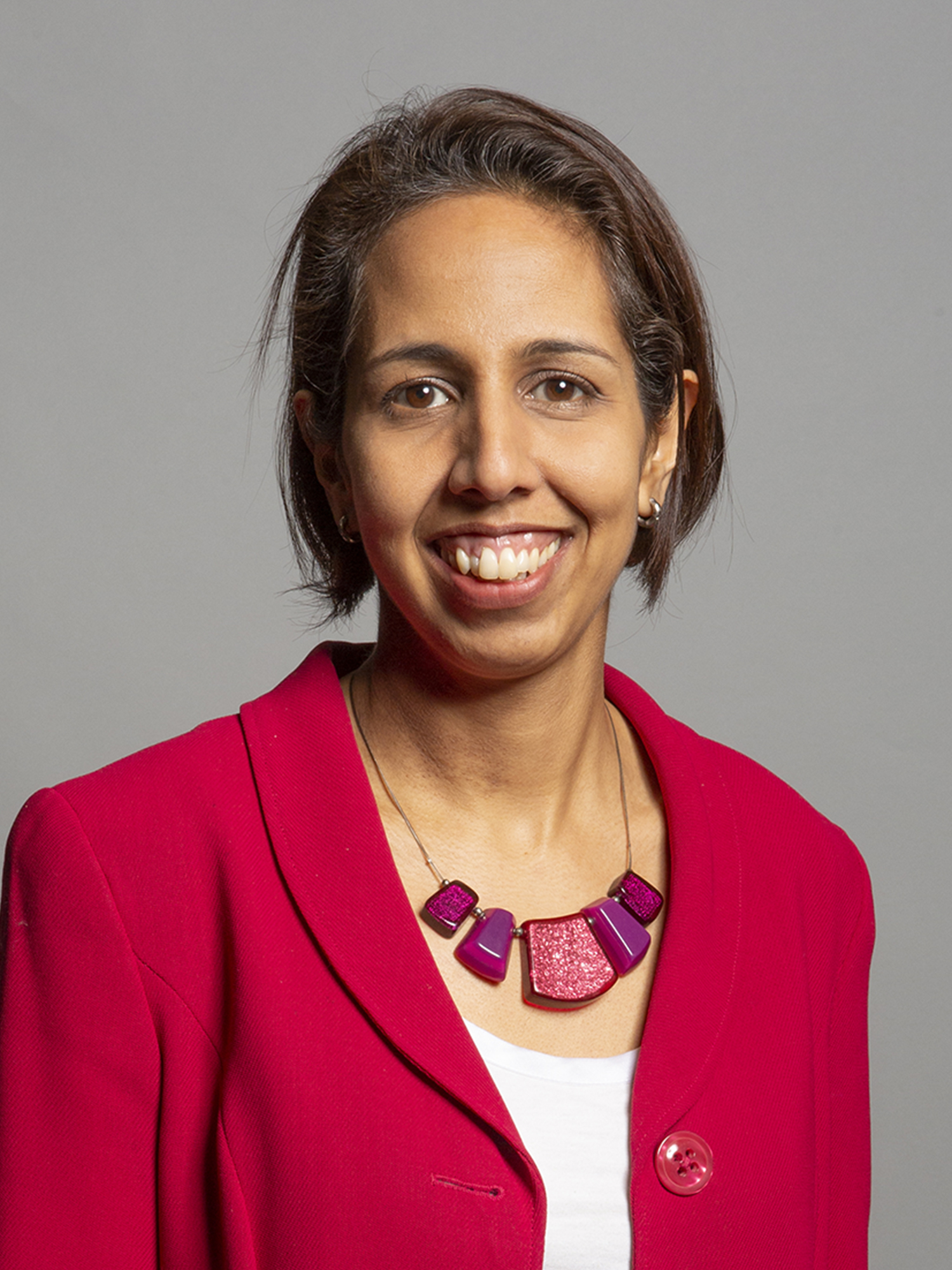 Official portrait of Munira Wilson MP 3×4 portrait of Munira Wilson